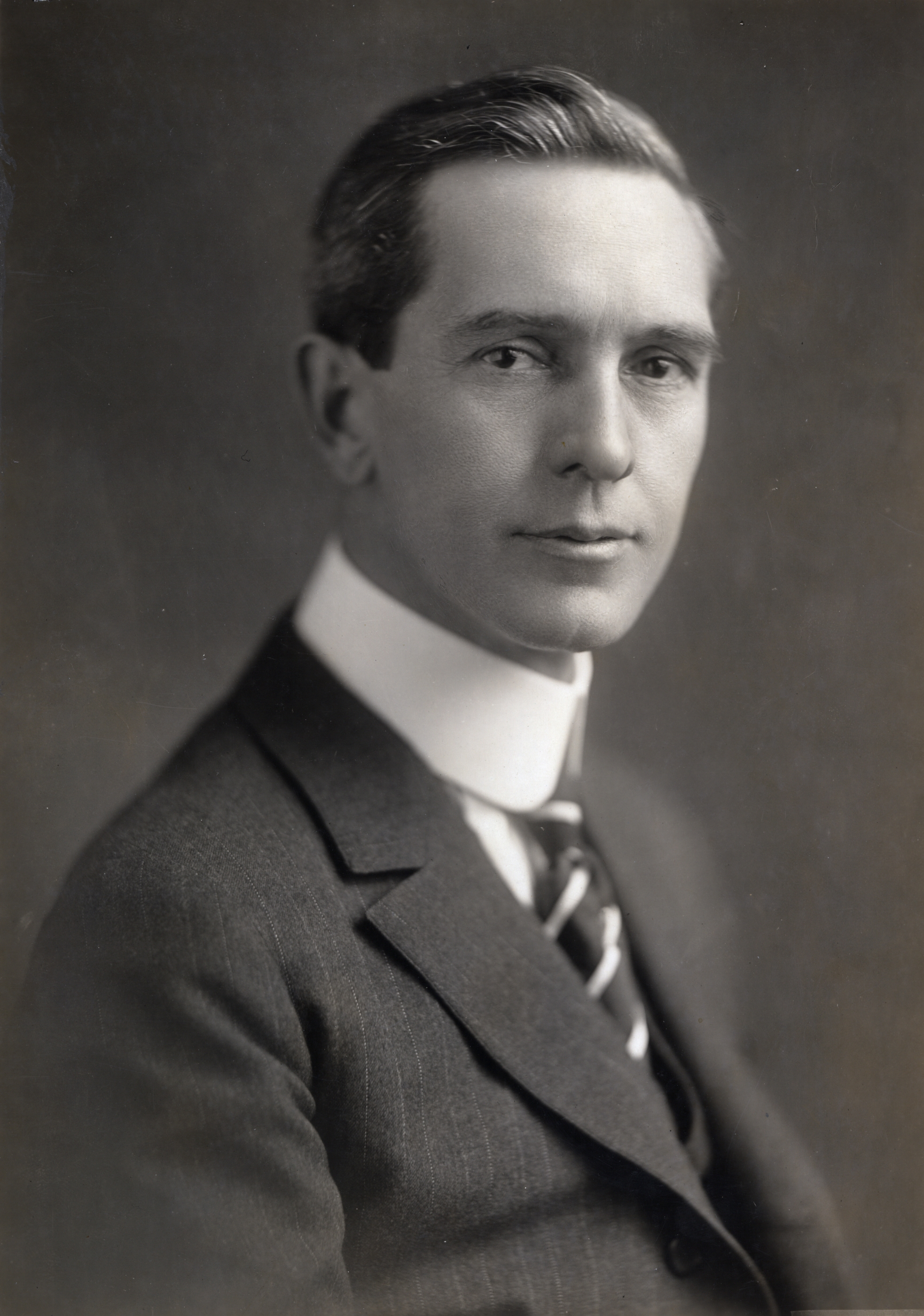 Breckinridge Long, head-and-shoulders portrait, facing slightly right